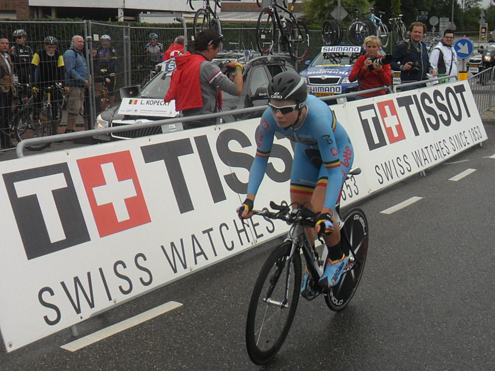 2012 UCI Road World Championships Valkenburg - Women's junior time trial